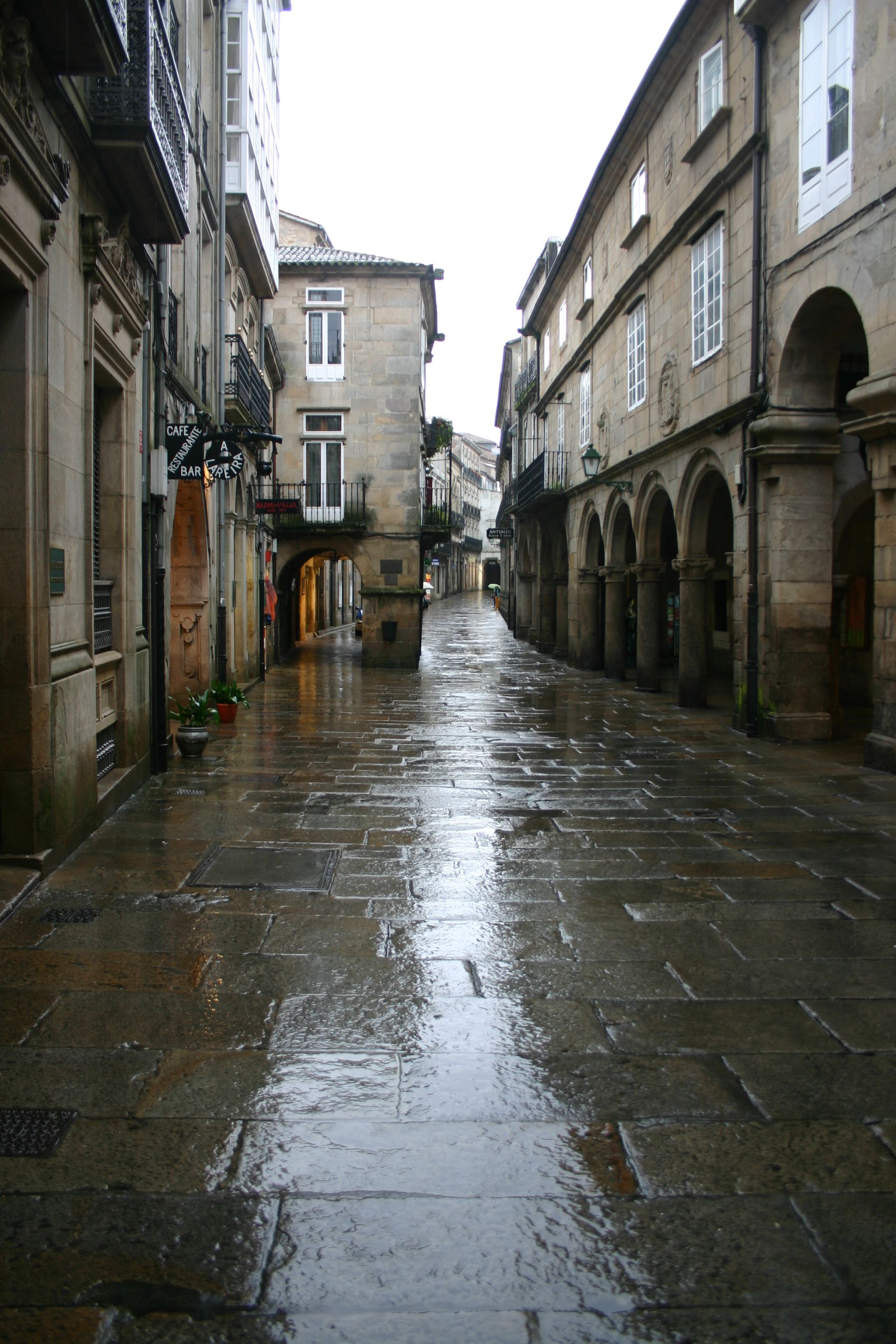 Villar street in Santiago de Compostela, Galicia (Spain).